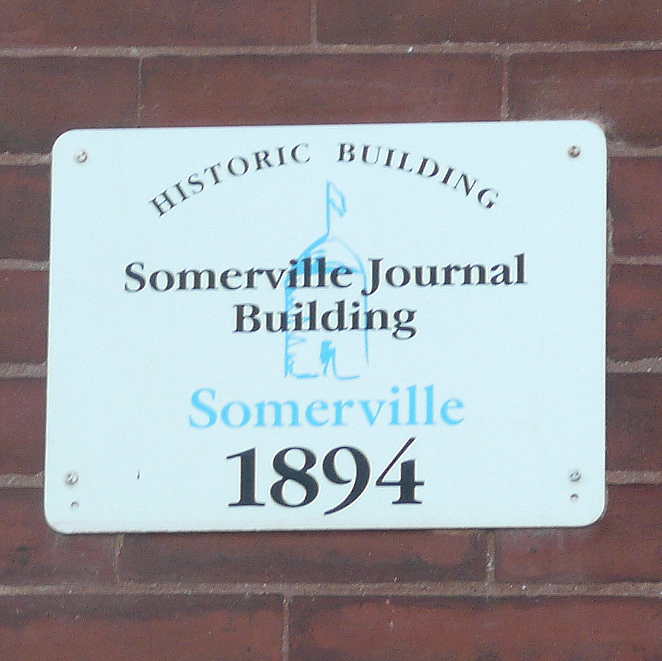 Somerville Journal Building is a historic building at 8-10 Walnut Street in Somerville, Massachusetts. It was built in 1894 as offices and the printing facility for the Somerville Journal. Administrative and editorial offices were on the first floor. Production and typesetting were on the second floor, and printing presses and equipment were located in the basement. The Somerville Journal vacated the building in approximately the 1950s. For some time after, the building was used as a youth recreation center for the City of Somerville. It has been used as artist studios since the 1970s. It was added to the National Register of Historic Places in 1989.